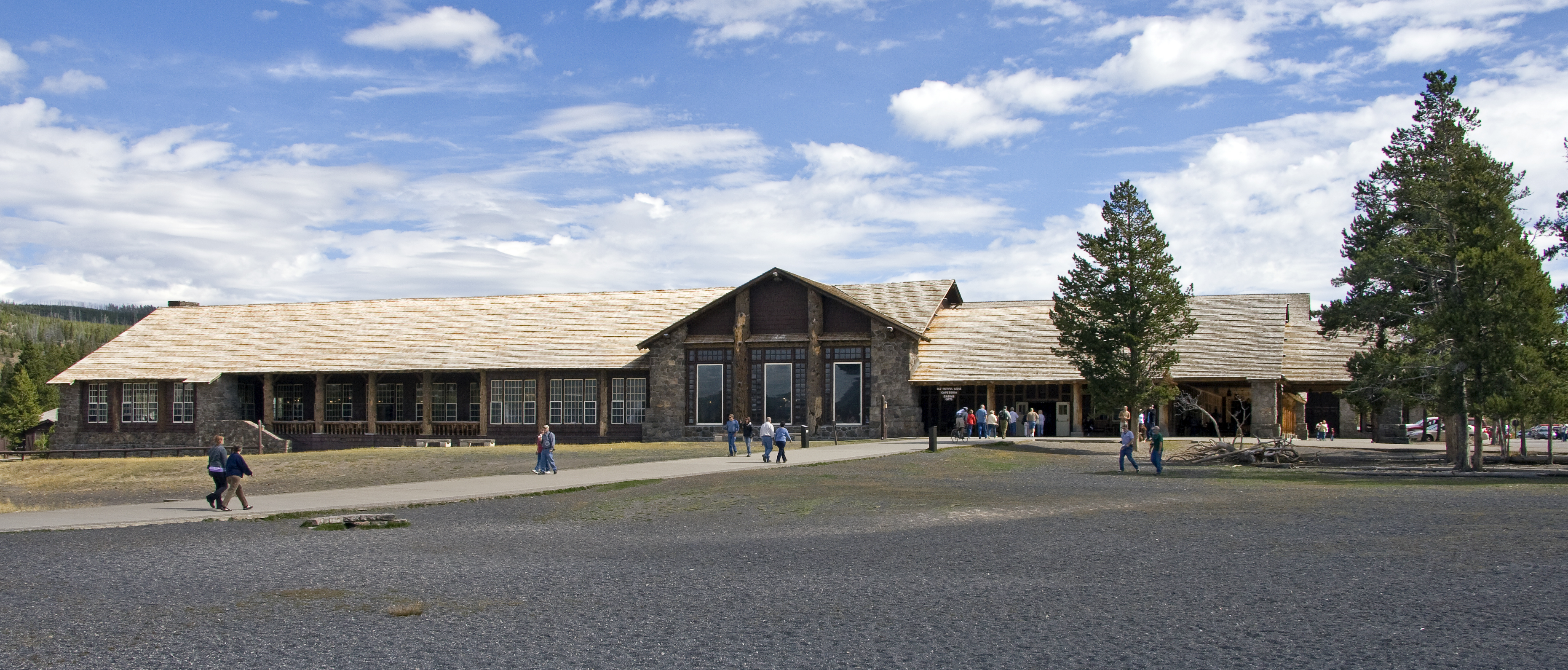 Old Faithful Lodge in Yellowstone National Park, Wyoming, USA. Side facing Old Faithful Geyser.